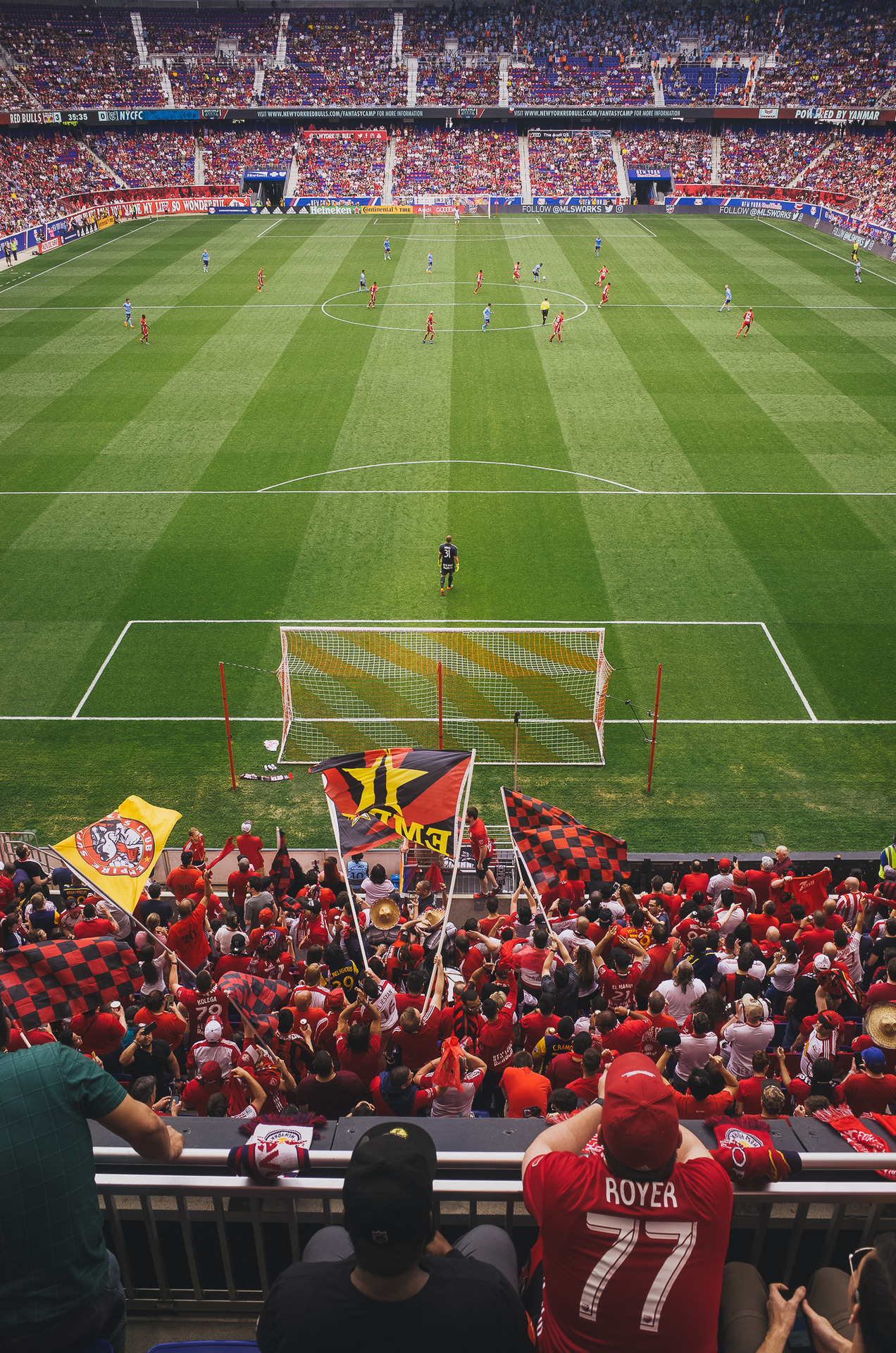 The crowd at red bull arena for a Hudson river derby match